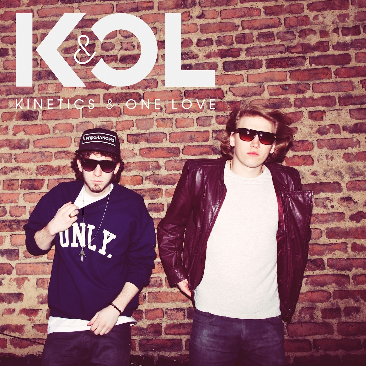 Image for Kinetics & One Love